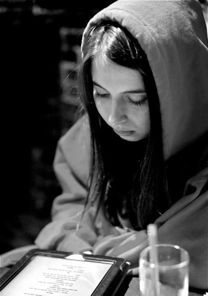 Esther Povitsky